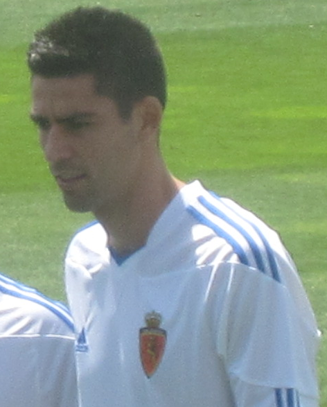 David Mateos in 2011, being presented at Real Zaragoza. Cropped from a Commons file.